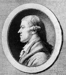 In the public domain by age